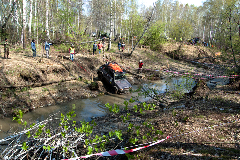 Getting into water and mud trial during Siberian auto moto festival named after Igor Koulikov (2014).